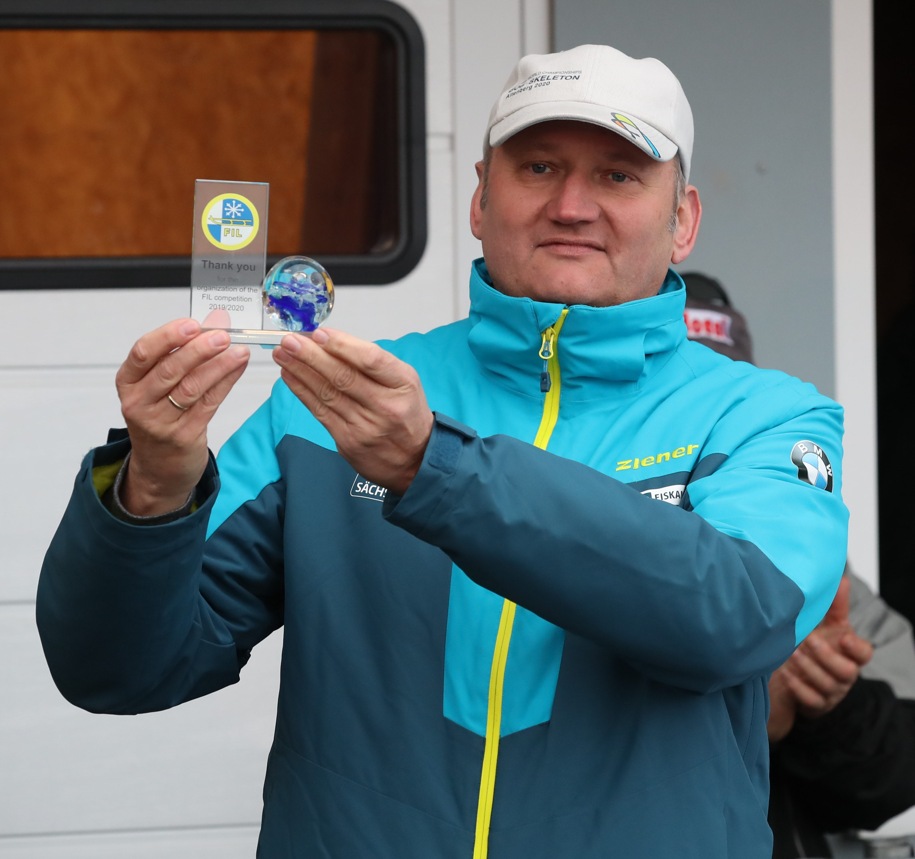 Victory ceremonies, 4th Juniors World Cup 2019/20, 2019/20 Juniors and Youth A Luge World Cups in Altenberg